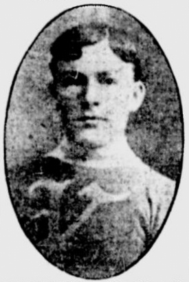 Canadian ice hockey player Art Throop of the Ottawa Victorias.